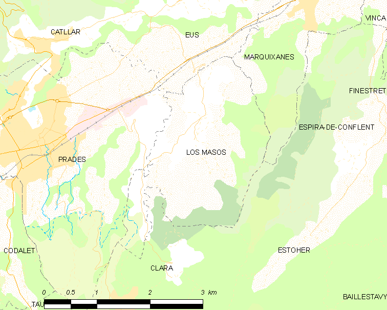 Map of French municipality